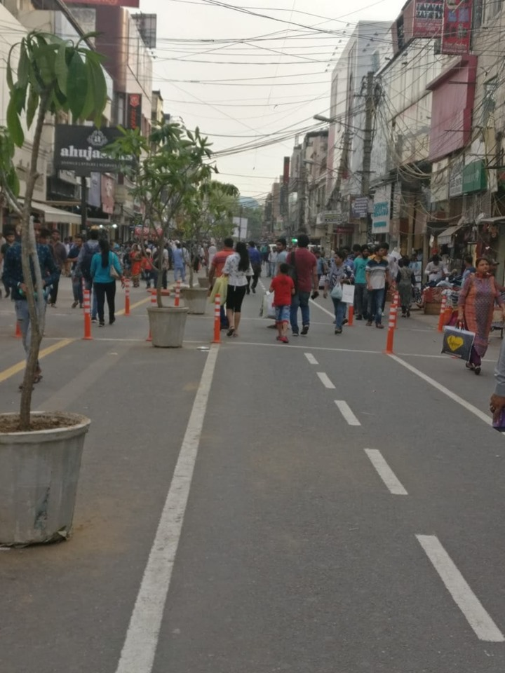 Karol Bagh Market - Revitalized 2019